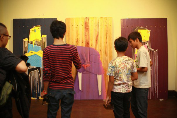 Artworks by Stereoflow